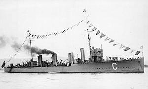 Chilean Destroyer Almirante Condell, serving 1914-1945.